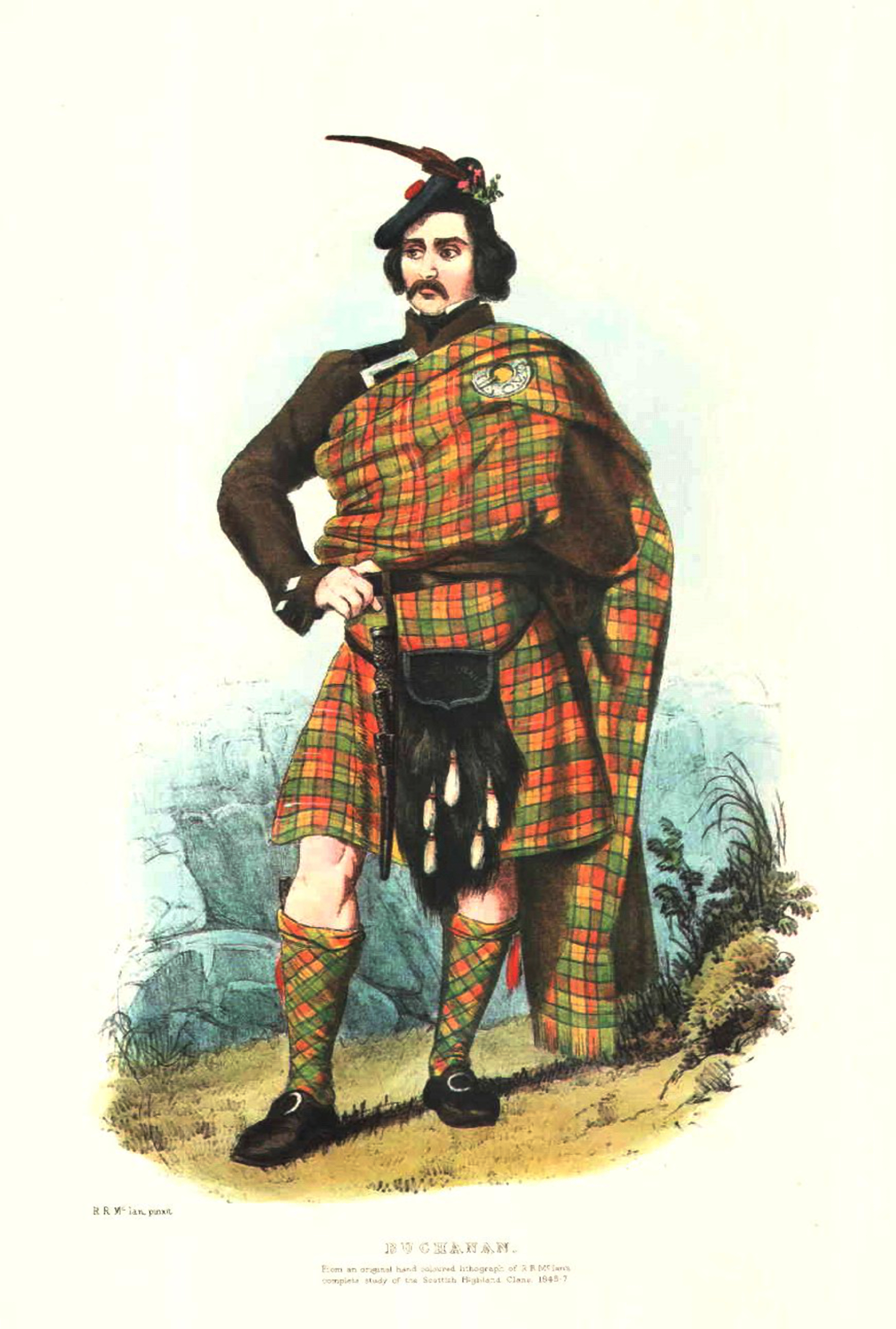 "Buchanan". A plate illustrated by R. R. McIan, from James Logan's The Clans of the Scottish Highlands, published in 1845.